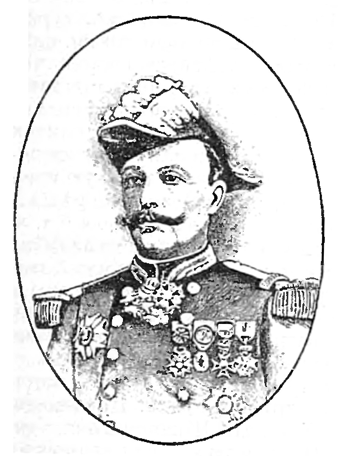 Oscar de Négrier